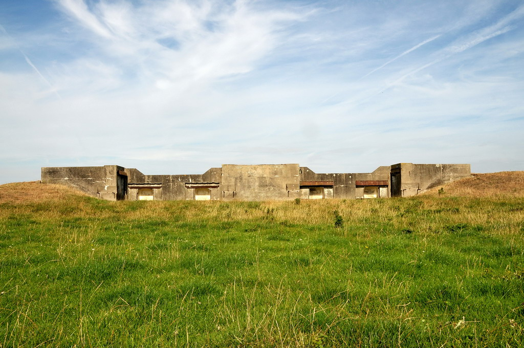 Battery of the Stelling van Amsterdam by Fort aan Den Ham.